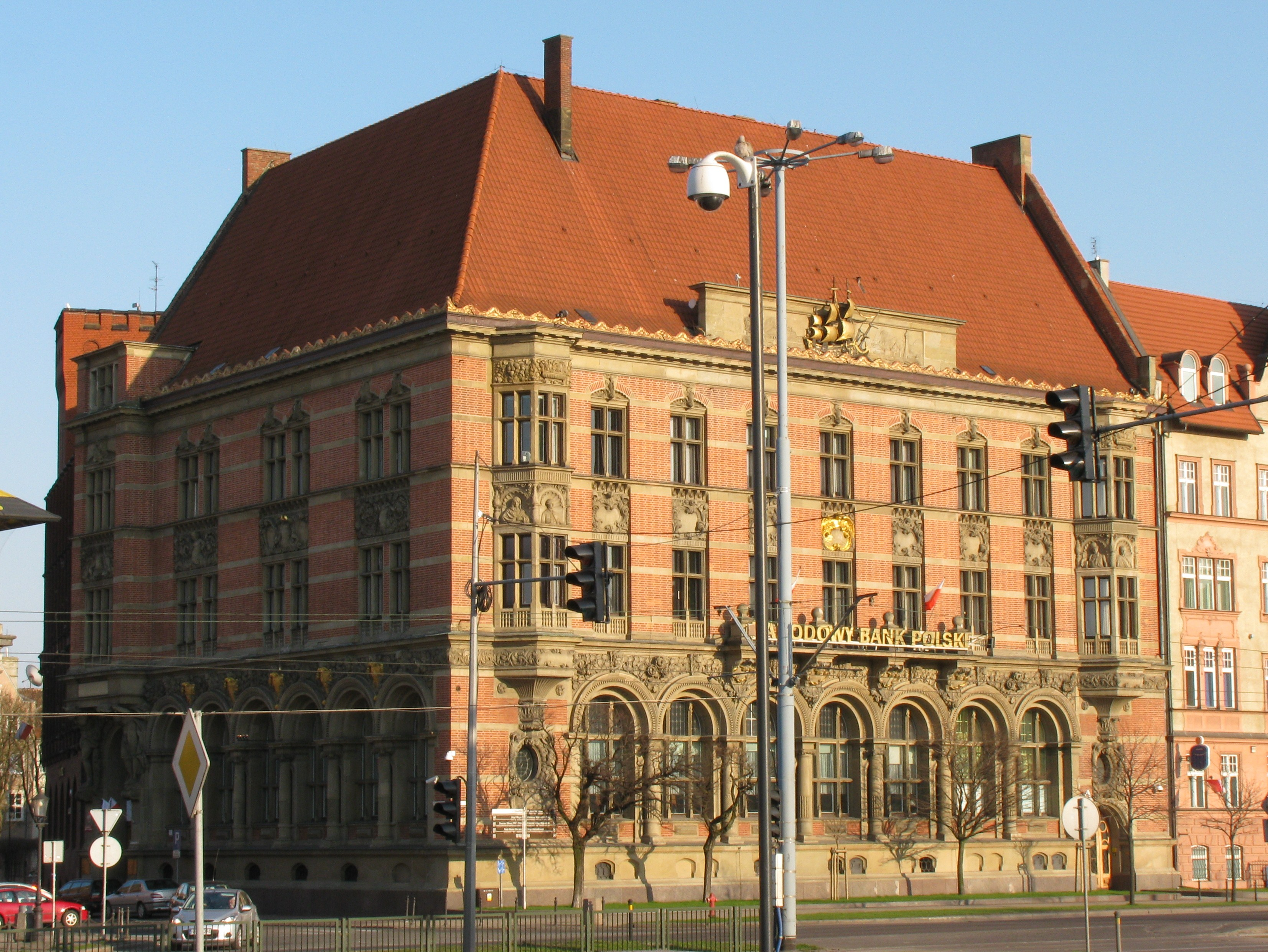 Gdańsk NBP (National Bank of Poland). Modified reconstruction of: Reichsbankhauptstelle Danzig (before 1924), then Bank of Danzig (1924-1939), then Reichsbank again (WW2, 1939-1945), partial destruction in March 1945.